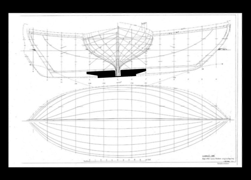 Colin Archer pilot boat 1887